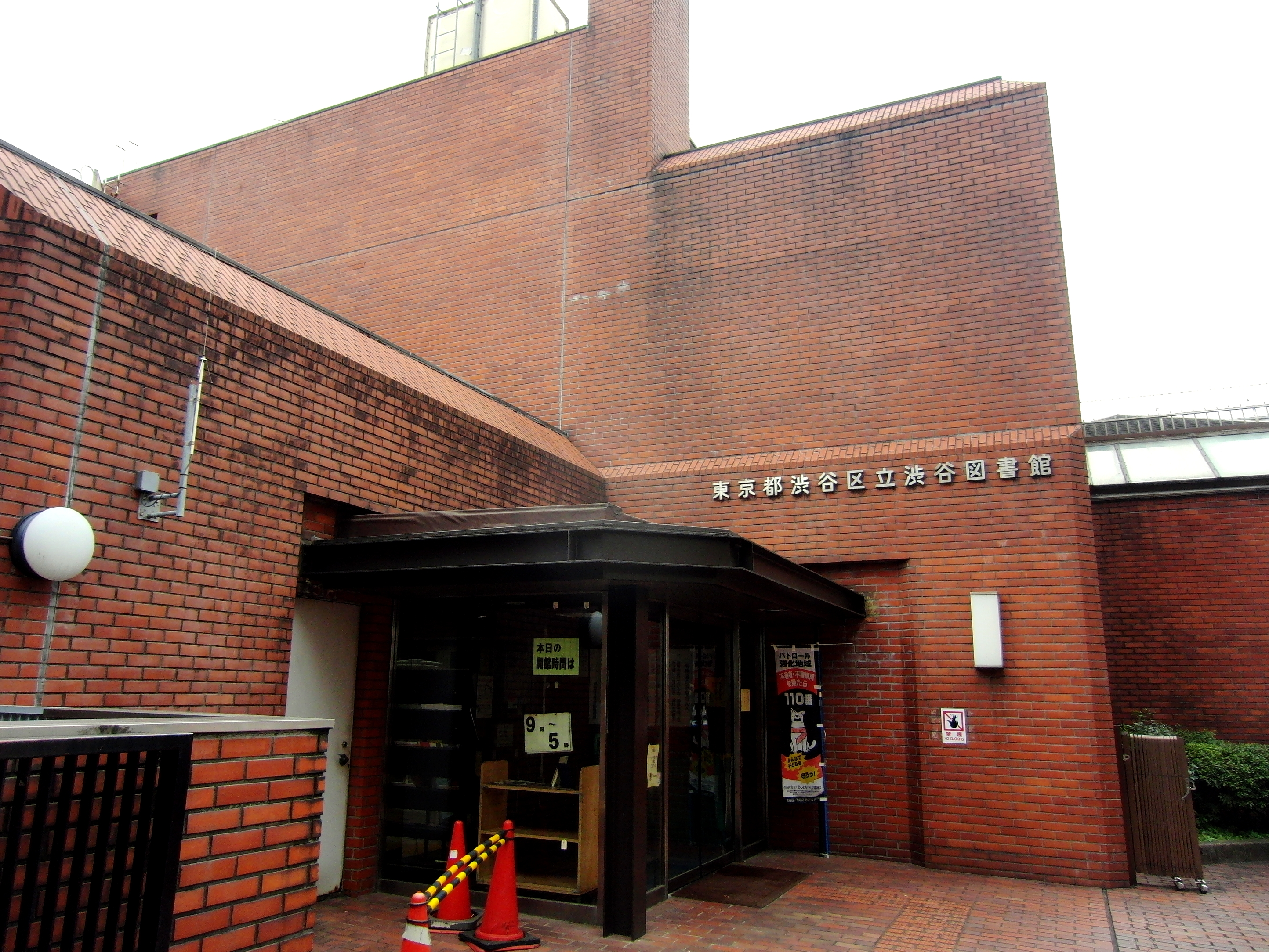 Shibuya City Shibuya Library, Shibuya, Tokyo, Japan